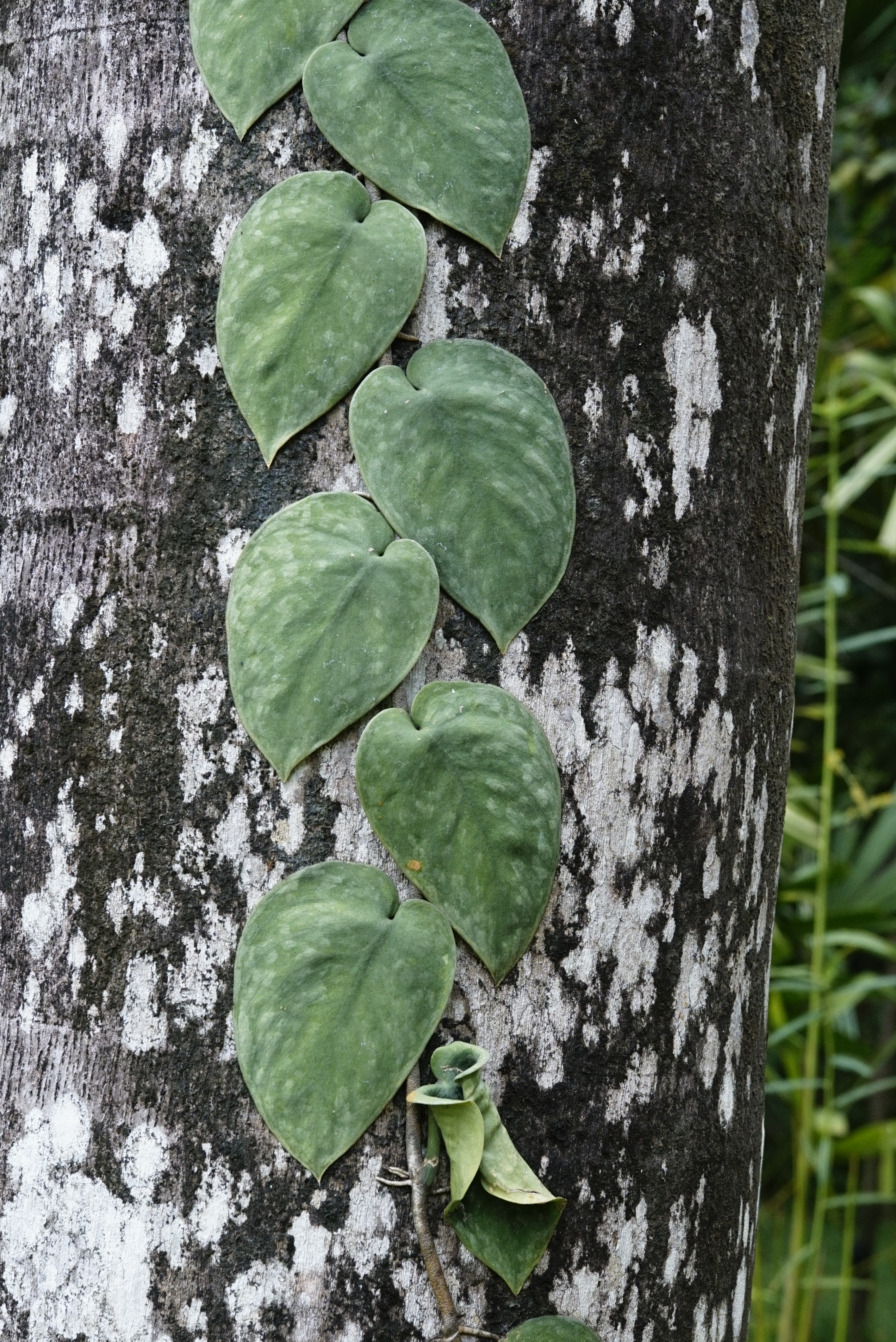 Scindapsus pictuS